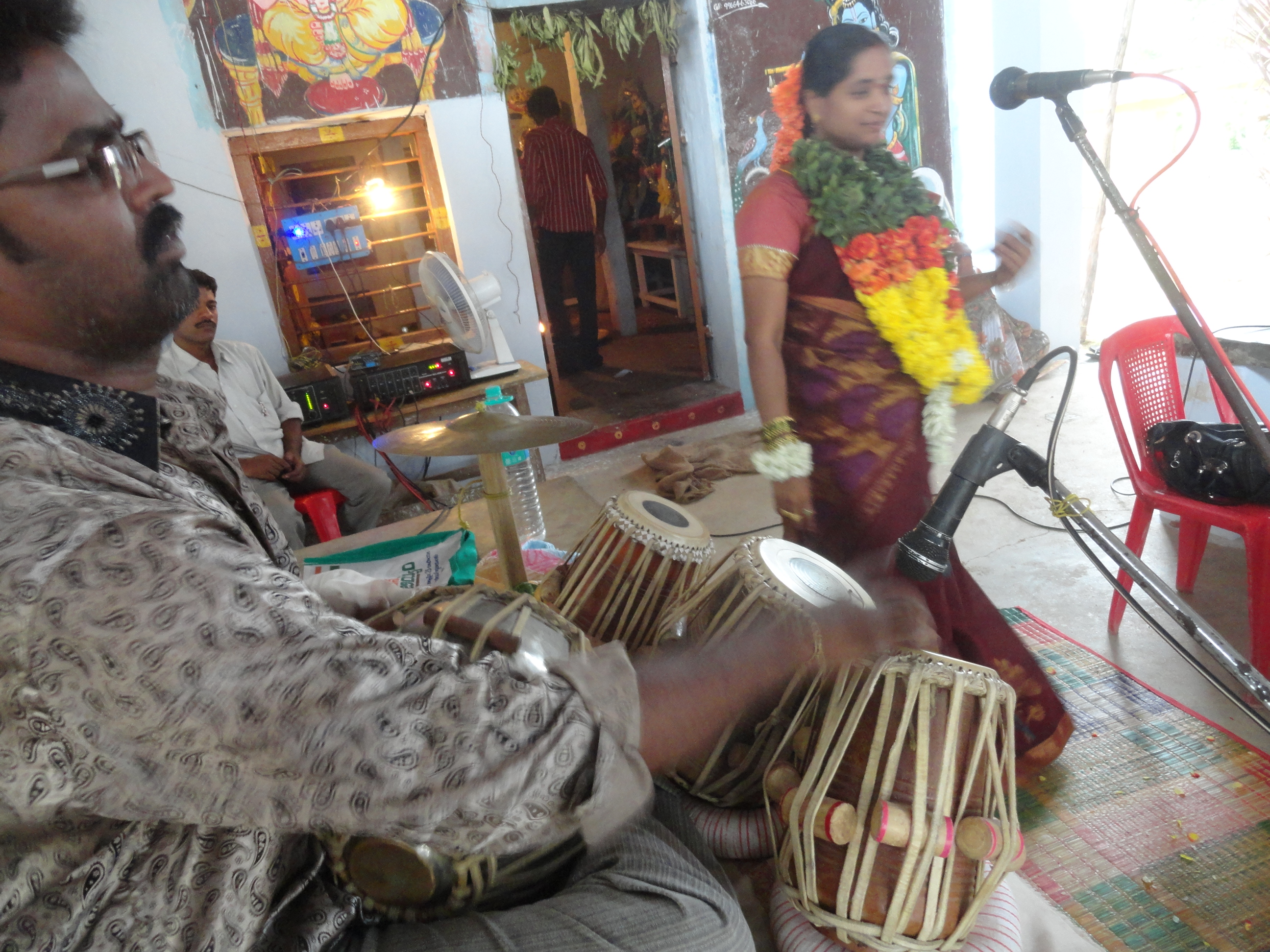 హరికథ కళా కారిని. మొగరాలలో తీసిన చిత్రము